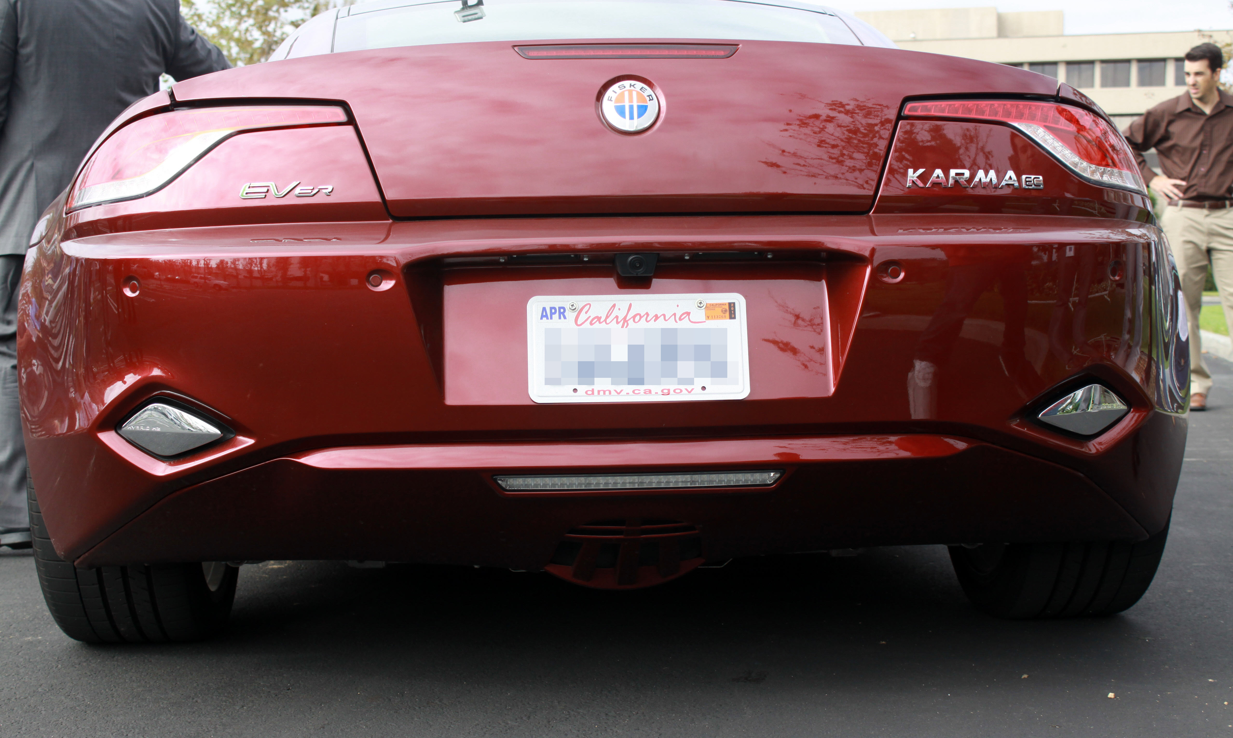 Fisker Karma Rear